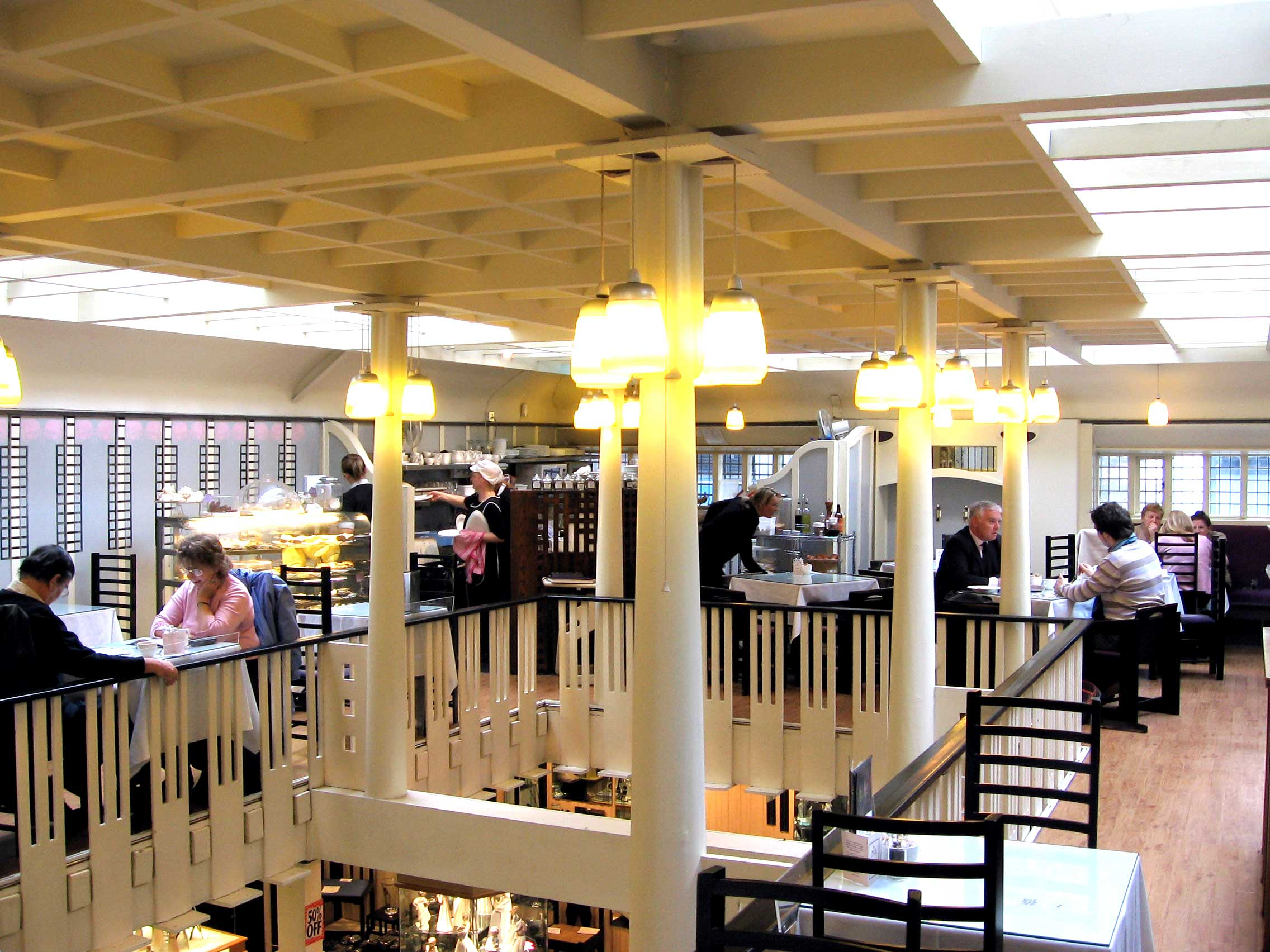 The Willow Tearooms, Glasgow designed by Charles Rennie Mackintosh in collaboration with Margaret MacDonald for Catherine Cranston. The Gallery. photograph taken on 9 March 2006 by User:Dave souza. Any re-use to contain this licence notice and to attribute the work to User:Dave souza at Wikipedia.